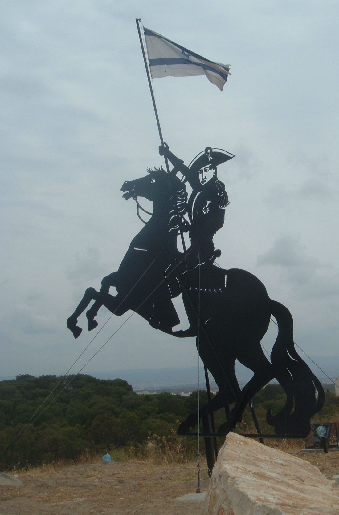 Statue of Napoleon on the to of Tel Akko (Napoleon Hill)